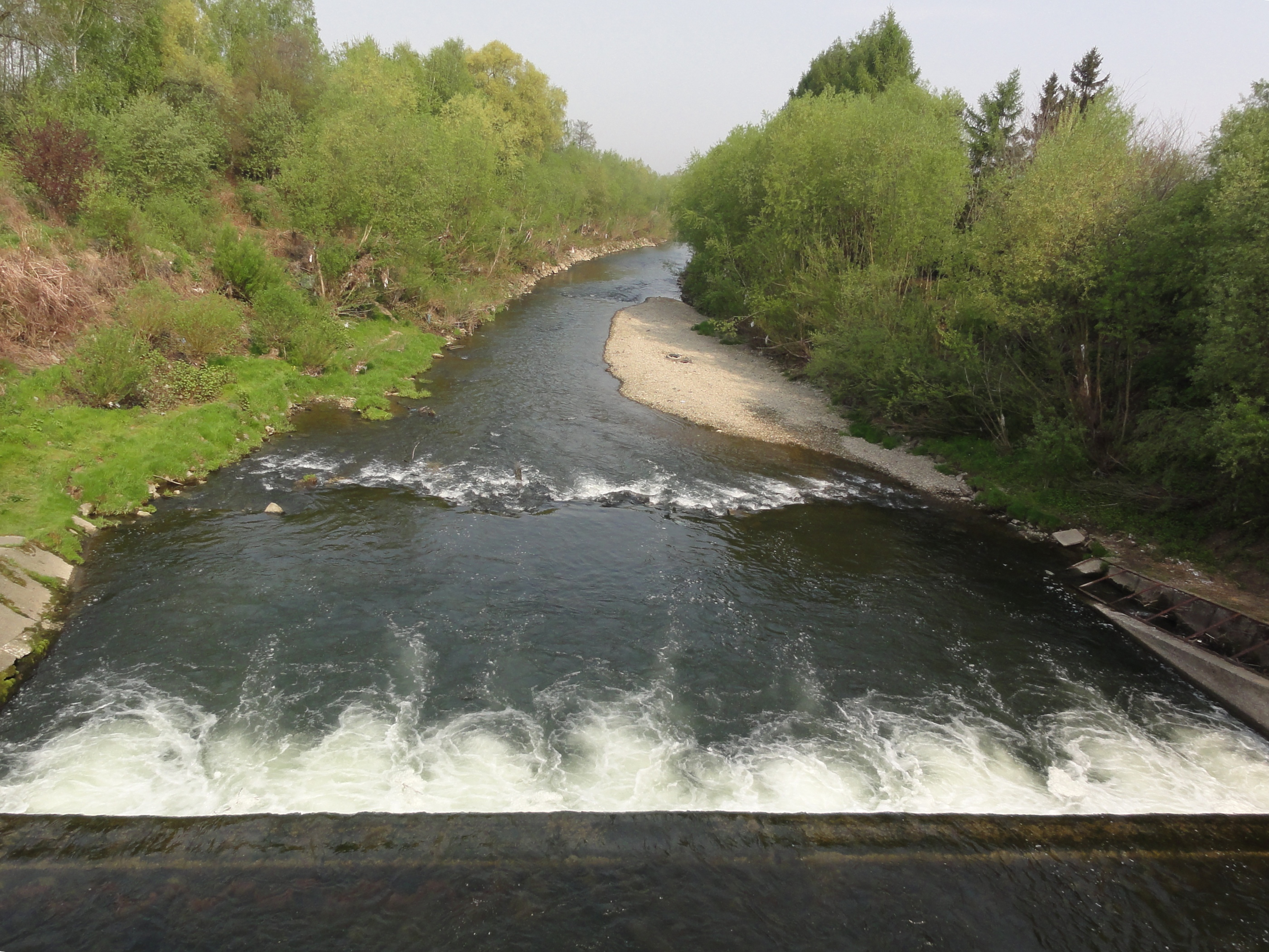 Vistula in Drogomyśl